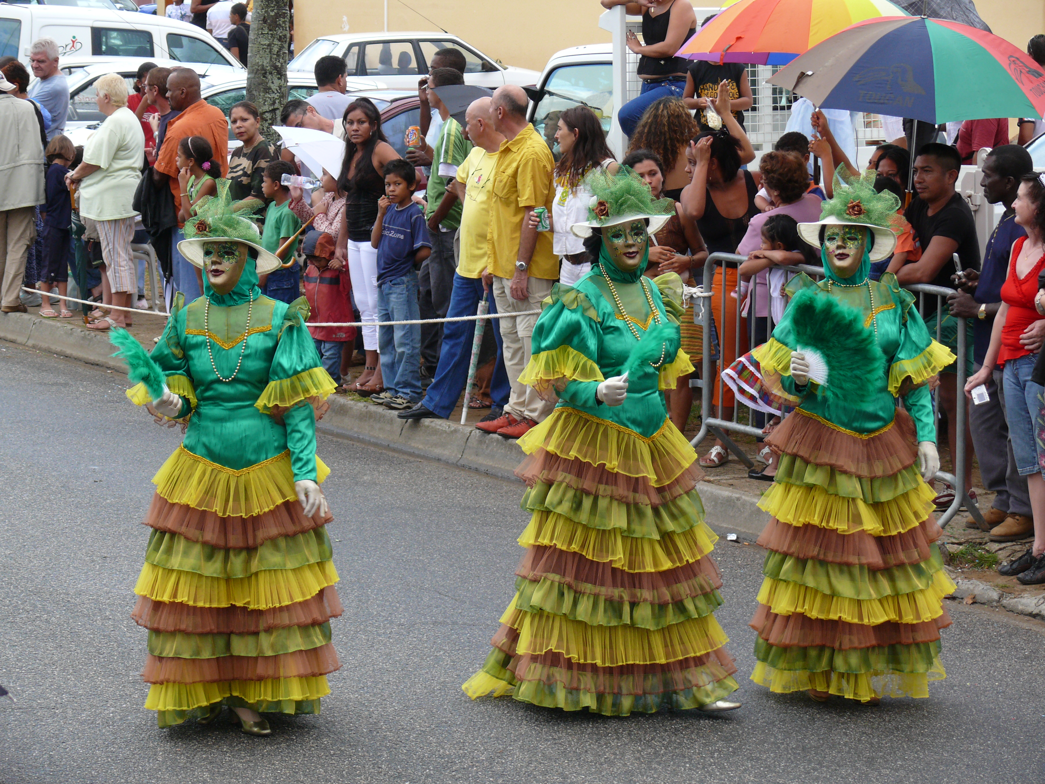 Touloulous at Kourou's Carnival parade, 2007.